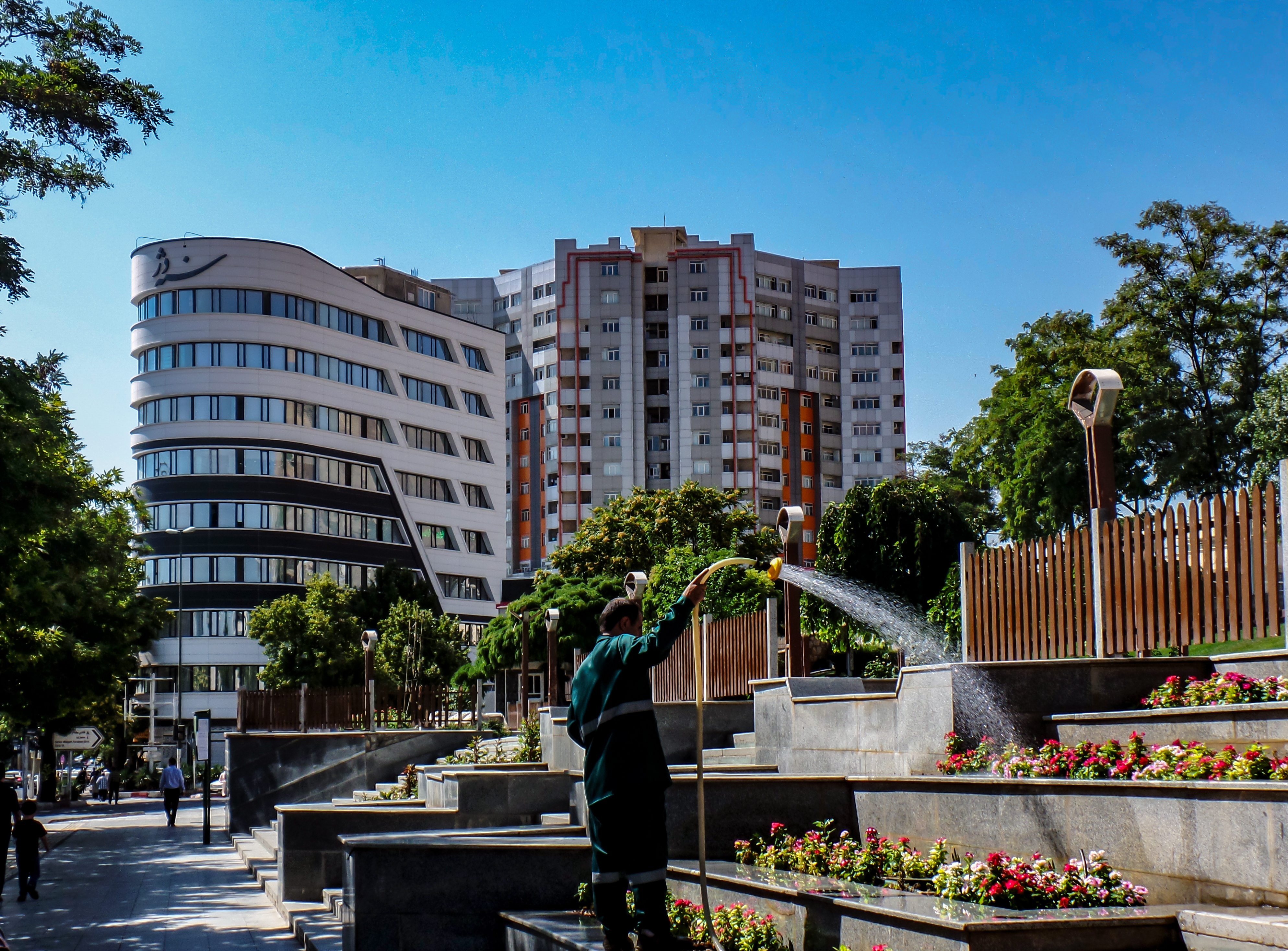 Esteqlal (Shano) park, Sanandaj, Iran